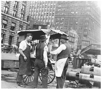 Syrian peddlers in Lower Manhattan